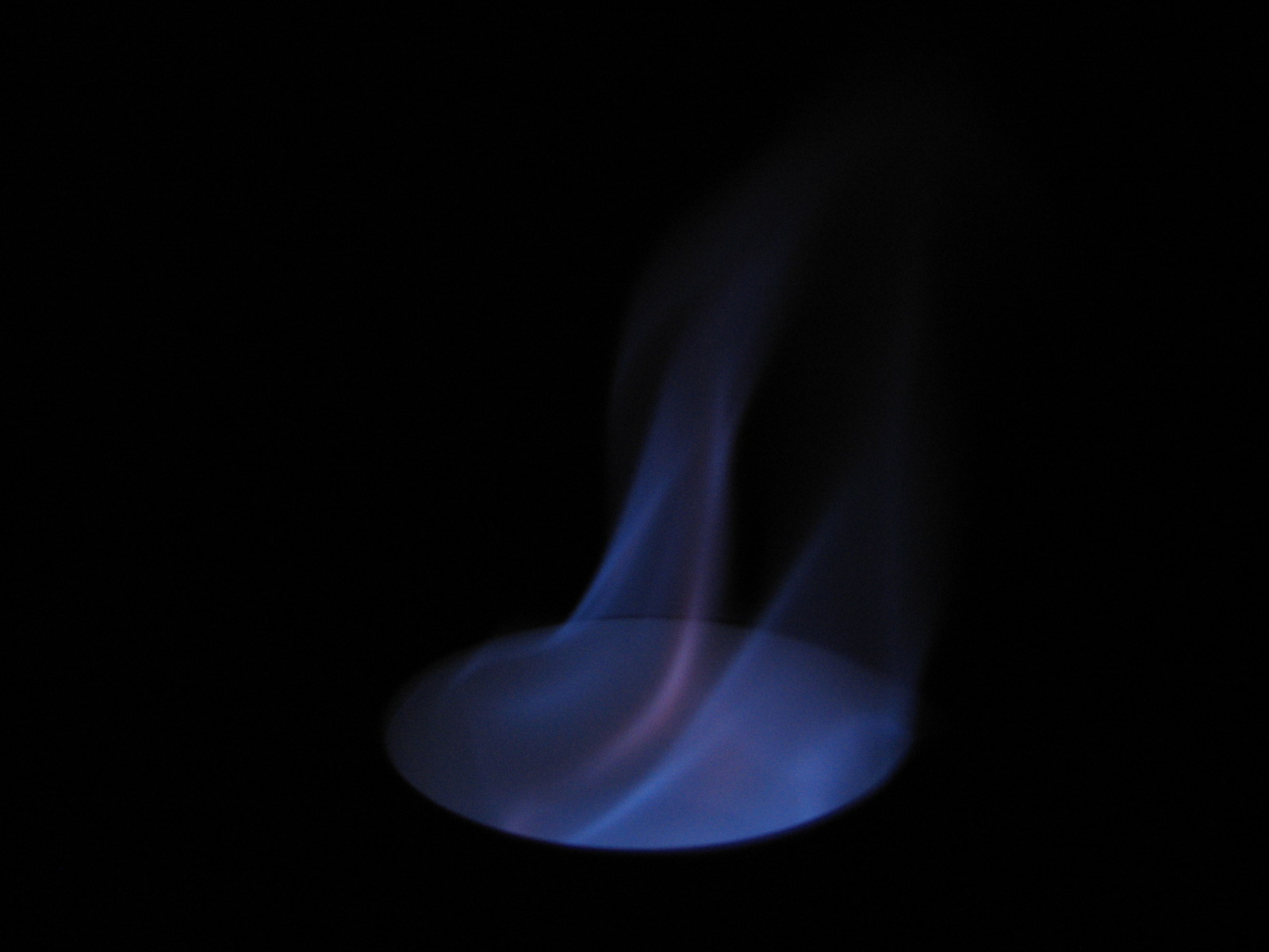 Combustion of ethanol in evaporating dish.